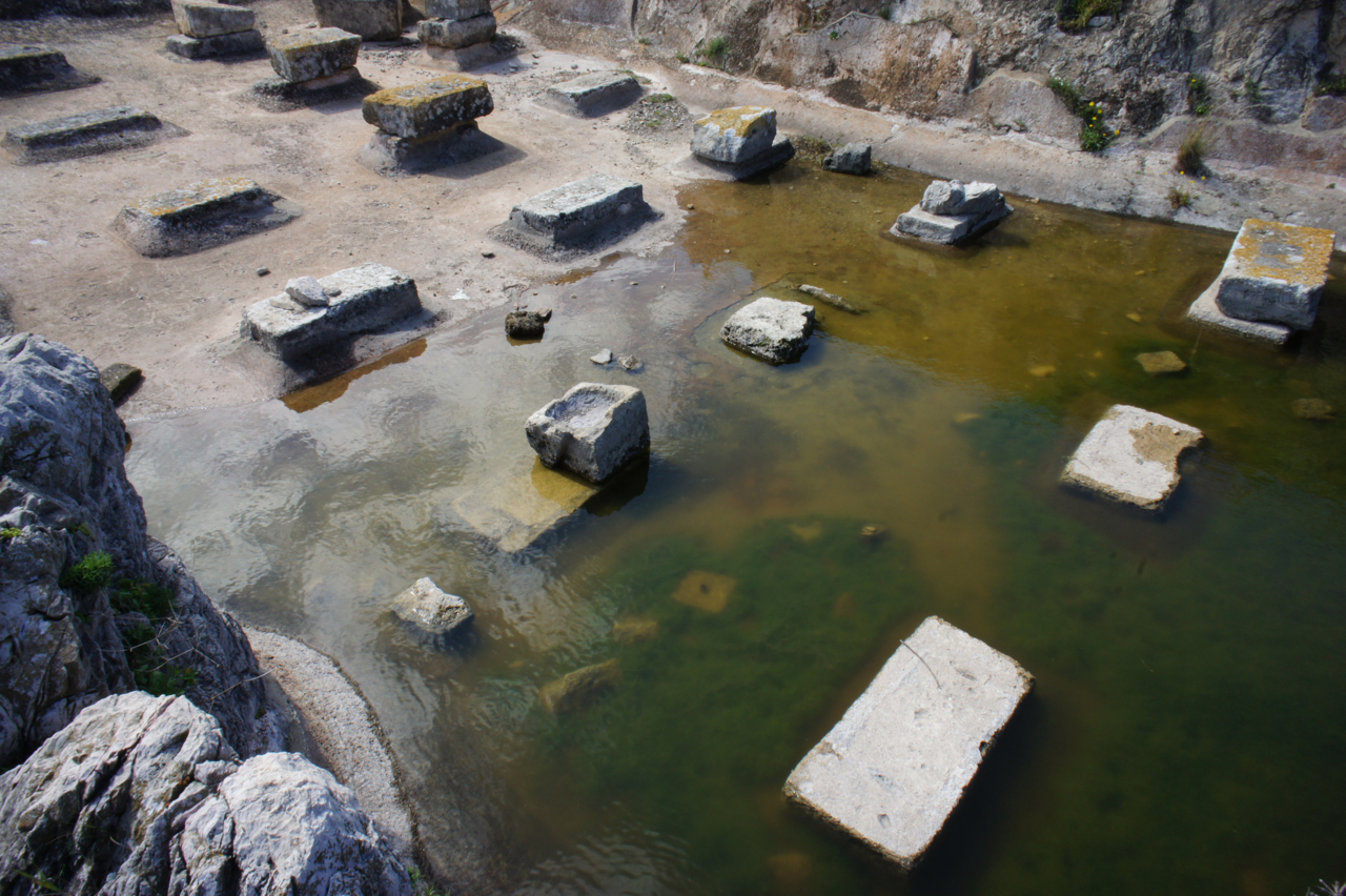 Public cisterns in Solunto